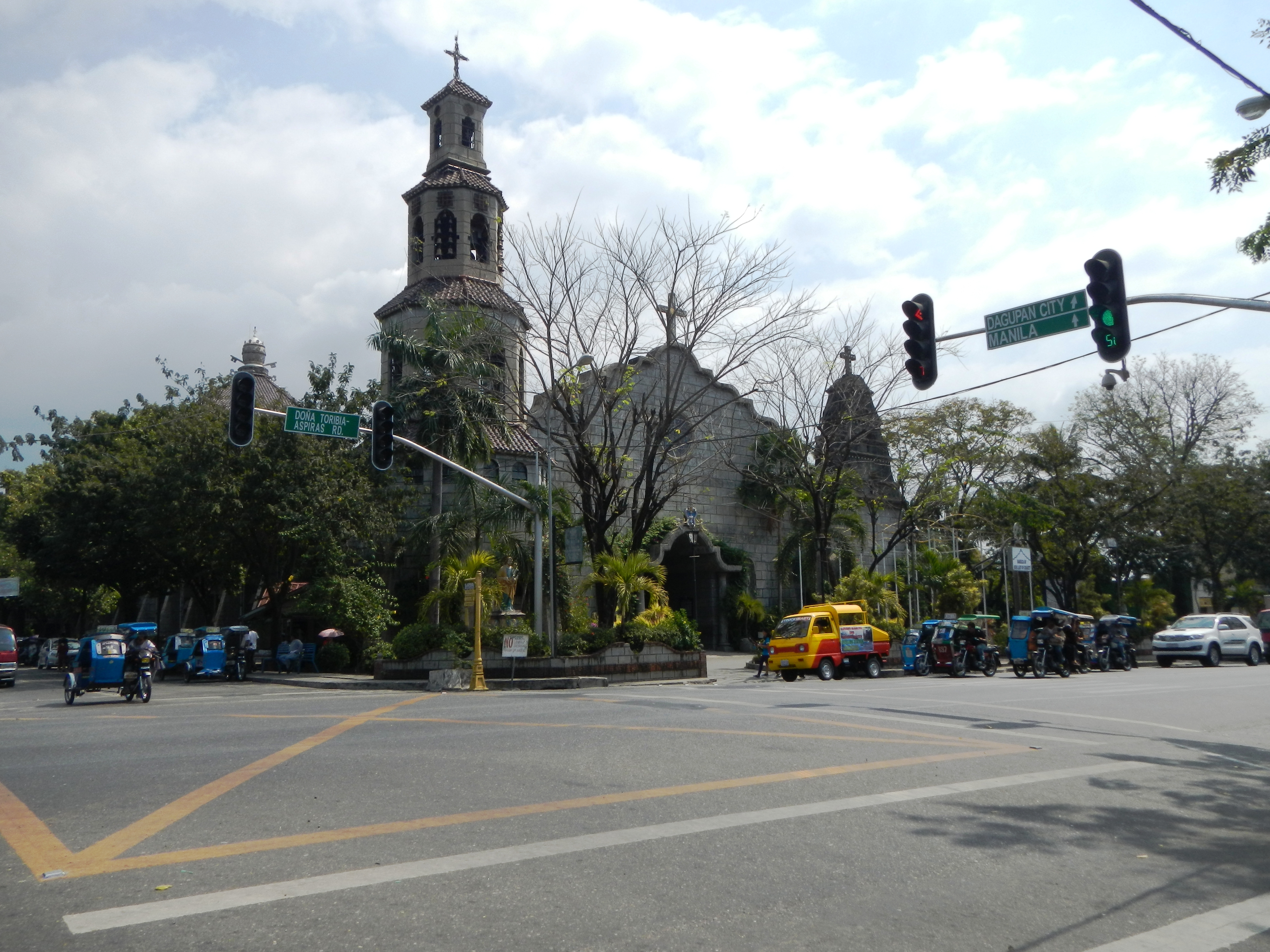 Photos of Pan-Philippine Highway Highway (AH26 AH26) in Agoo, La Union Town Proper, NIA MASALI RIS-P P Taiho Restaurant, Rang-Ay Bank, Dona Torbia Aspiras Road Consolacion Sector V, Old Town Hall restored renovated and now Chowking Restaurant in front of the Agoo Basilica.